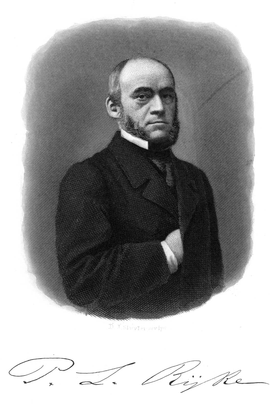 Pieter Leonard Rijke (1812-1899), professor physics Leiden University. Photograph by Dirk Jurriaan Sluyter (pre 1872)